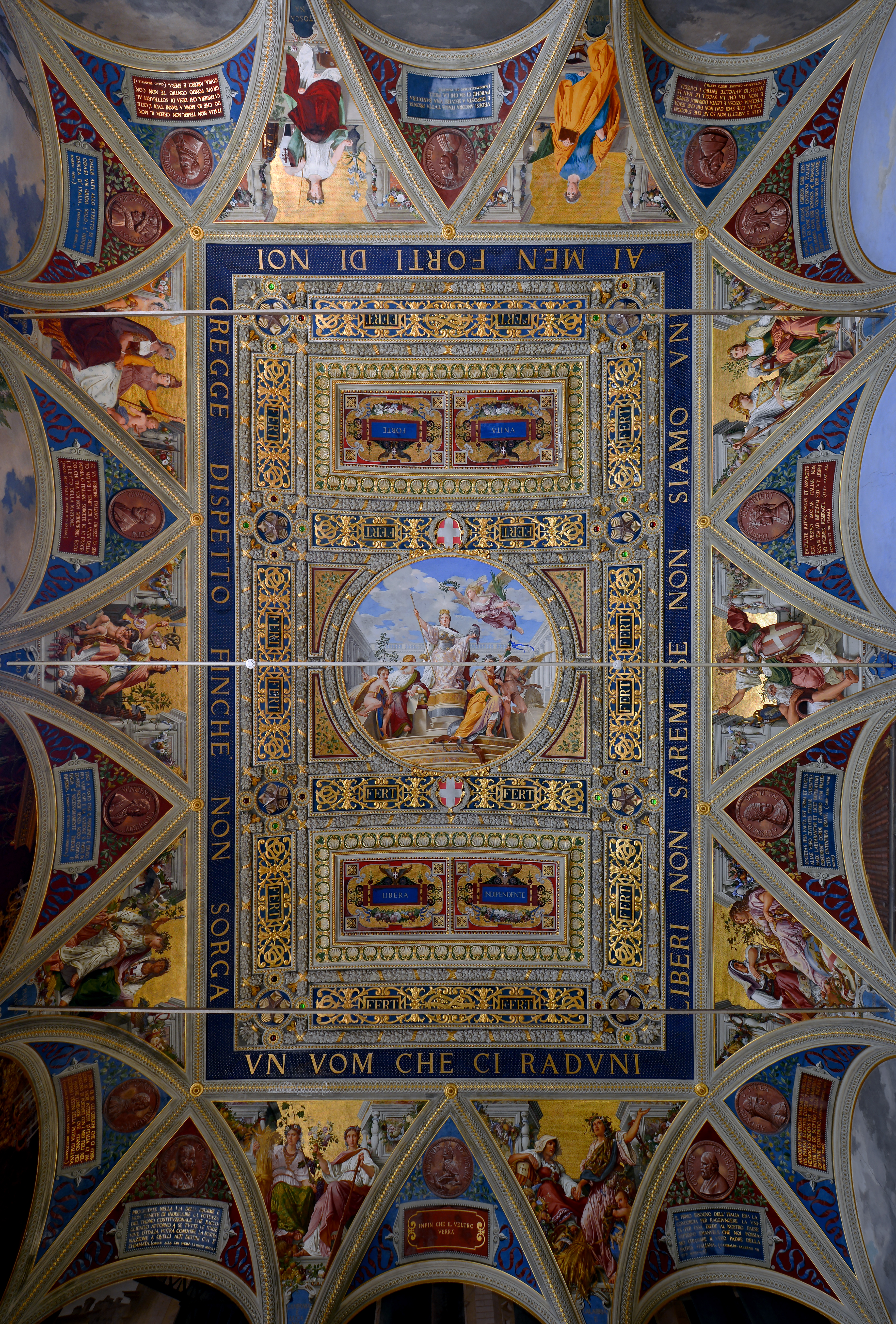 Palazzo Pubblico (Siena) - Room of the Risorgimento - Ceiling